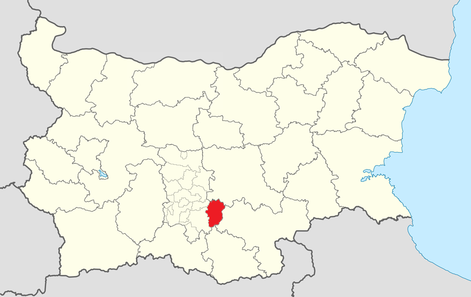 Location map of Parvomay Municipality within Bulgaria and Plovdiv province